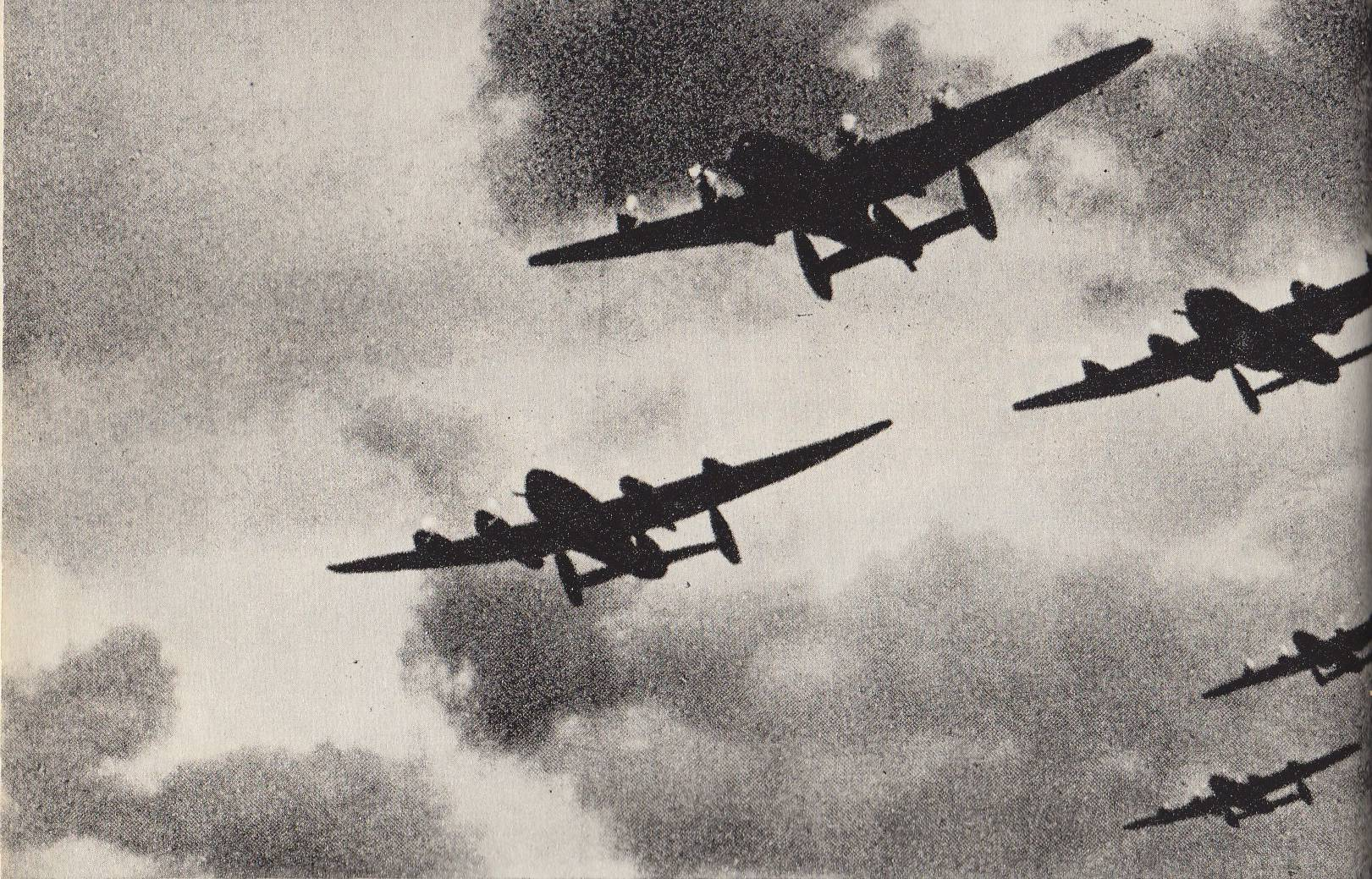 Avro Lancaster aircraft of No. 300 (Polish) Squadron RAF.